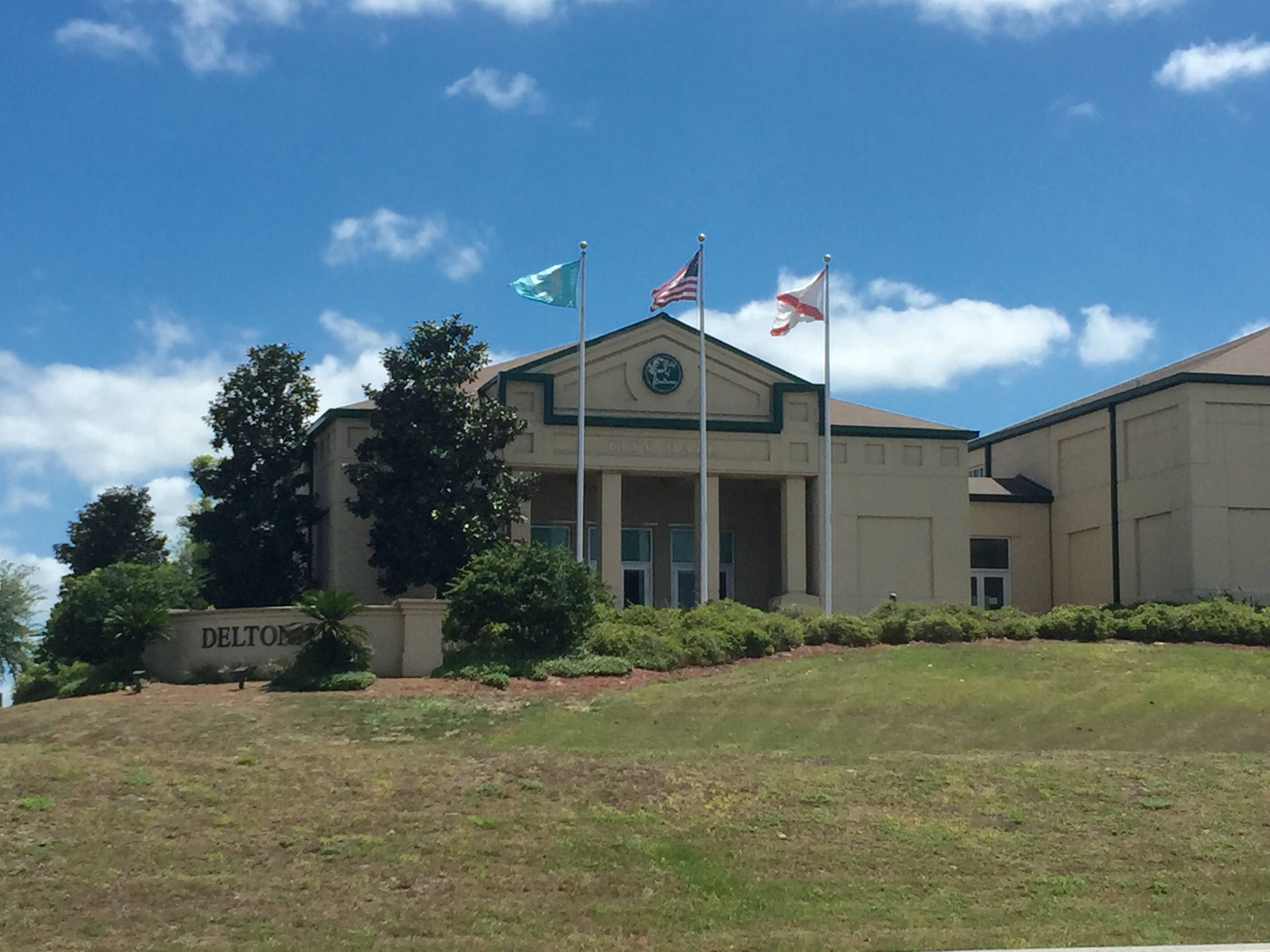 Front view of Deltona City Hall, April 9, 2015.